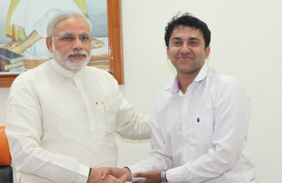 Prijesh Kannan whilst receiving honorary receipt from Prime Minister Narendra Modi for Guinness World Record Achievement